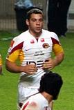 Cyril Stacul playing for the Catalans Dragons in Super League (2009)